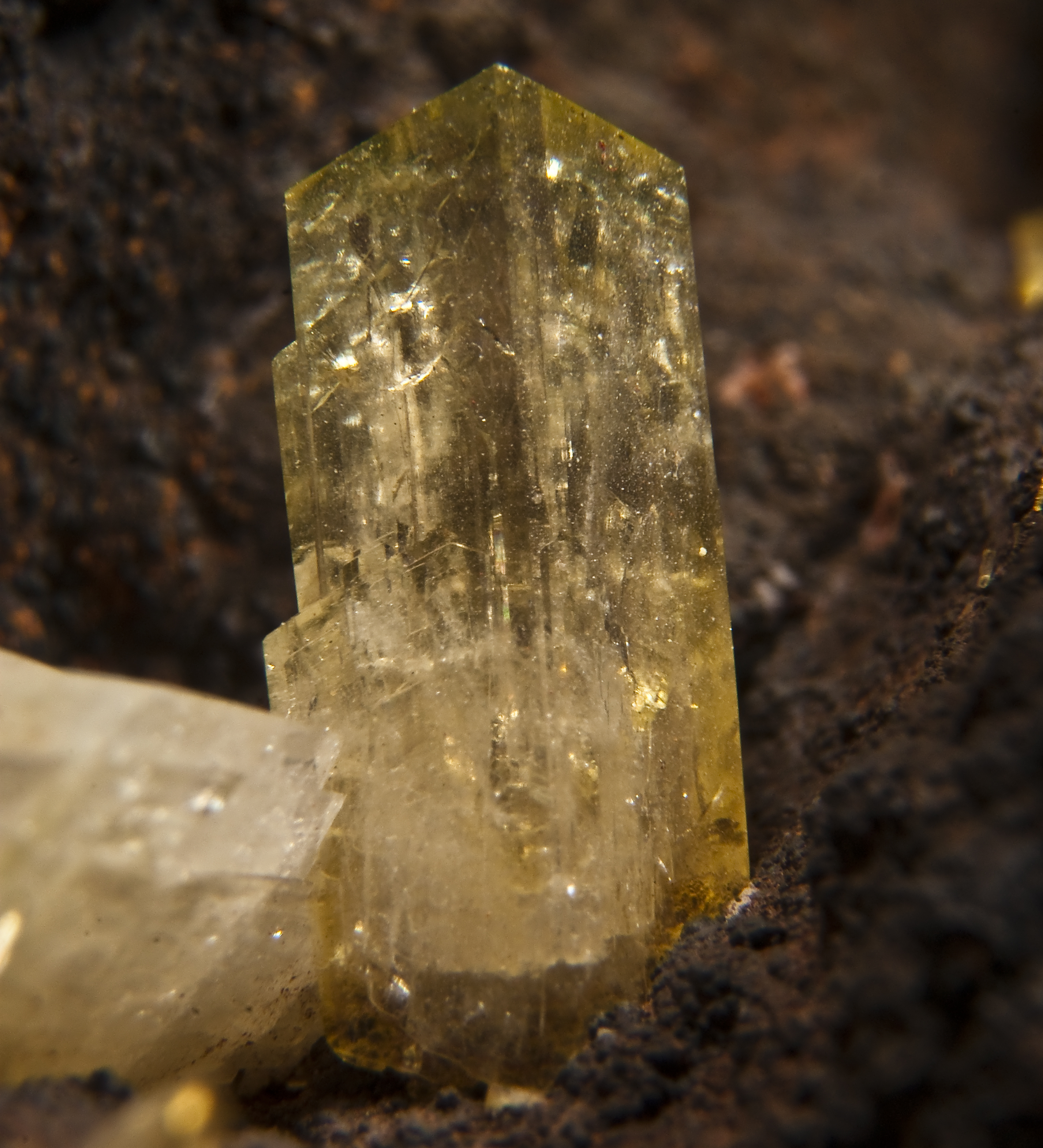 Adamite Locality : Ojuela Mine, Mapimí, Mun. de Mapimí, Durango, Mexico Size : 1cm)